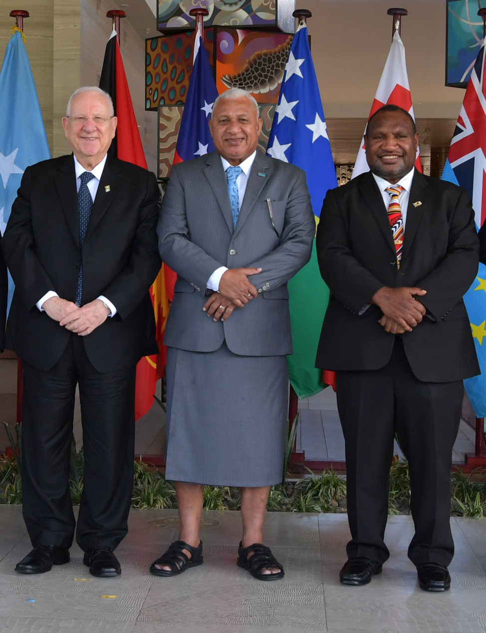 The President of Israel, Reuven Rivlin landed in Fiji, was welcomed on the island in a traditional ceremony and led a first summit meeting of the Pacific nation's. Thursday, February 20, 2020. Credit Photo: Kobi Gideon / GPO. From left: Federated States of Micronesia Embassy Charge D’Affaires Wilson Waguk, Solomon Islands Minister for Foreign Affairs Jeremiah Manele, Deputy Prime Minister of Tuvalu Minute Alapati Taupo, Samoan Prime Minister Tuilaepa Lupesoliai Sailele Malielegaoi, Israeli President Reuven Rivlin, Fijian Prime Minister Voreqe Bainimarama, Prime Minister of Papua New Guinea James Marape, Deputy Prime Minister of Tonga Sione Vuna Fa'otusia, Minister for Internal Affairs of Vanuatu Andrew Solomon Napuat at the Pullman Nadi Bay Resort and Spa on February 20, 2020.